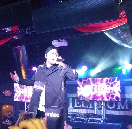 Epik High, Mithra Jin, 2015 K-Pop Night Out at SXSW